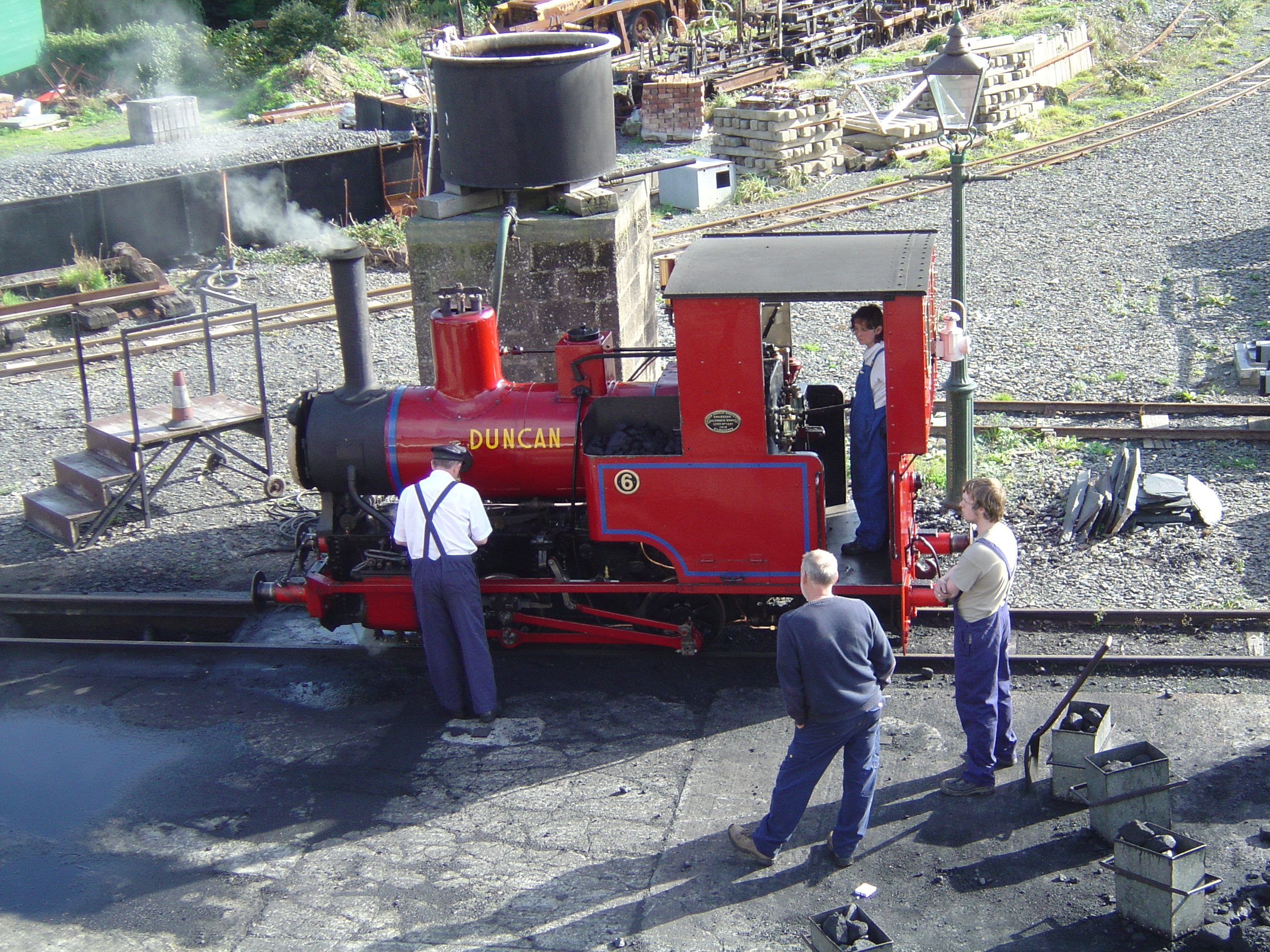 Talyllyn Railway Number 6: Douglas (running as Duncan)